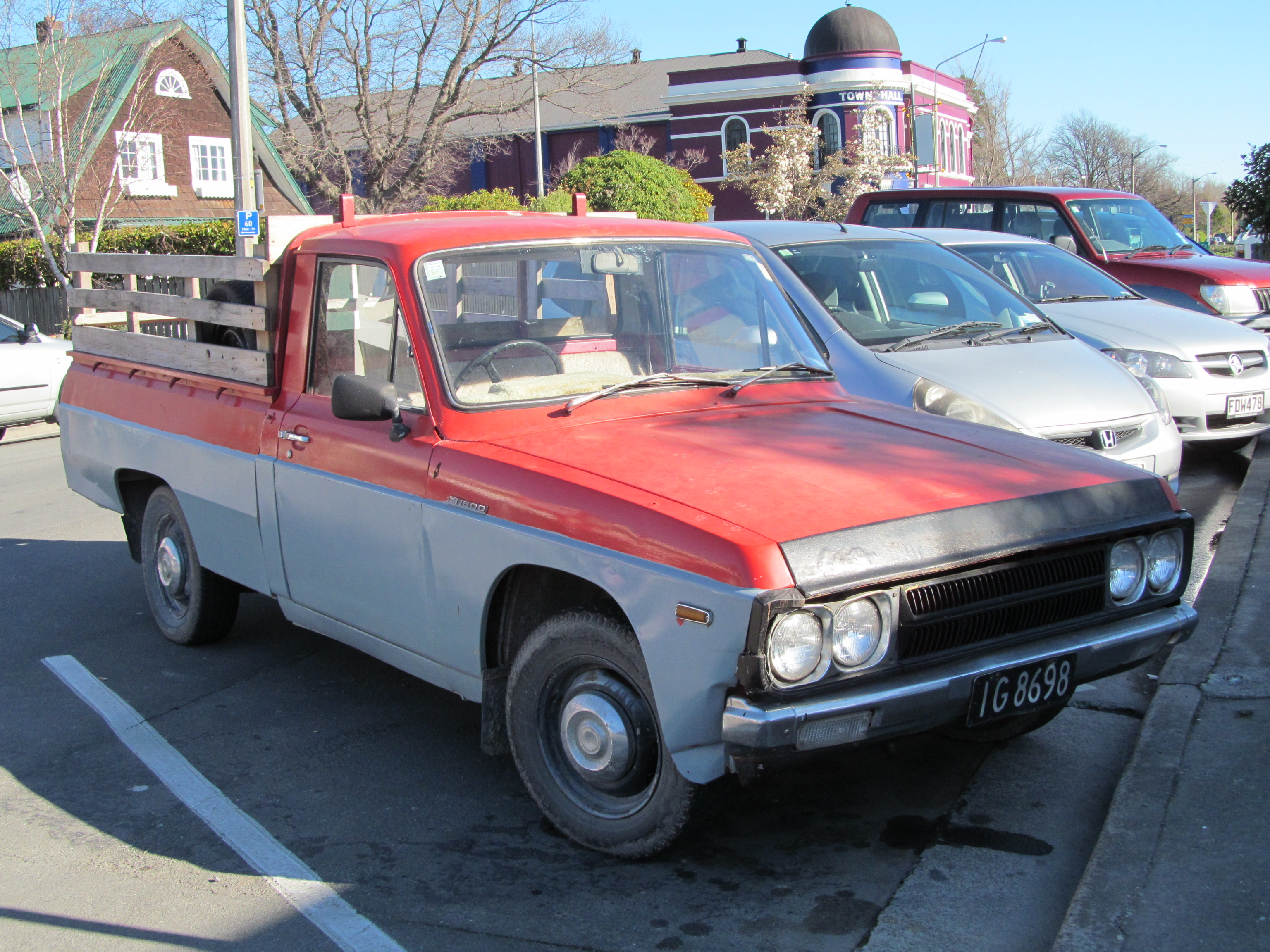 IG8698 A lot of these B-Series have been modified as part of the 'minitruck' scene here in New Zealand, so it was refreshing to see an original example a couple of weeks back. It's strange that a two-tone colour option was available on a commercial vehicle...